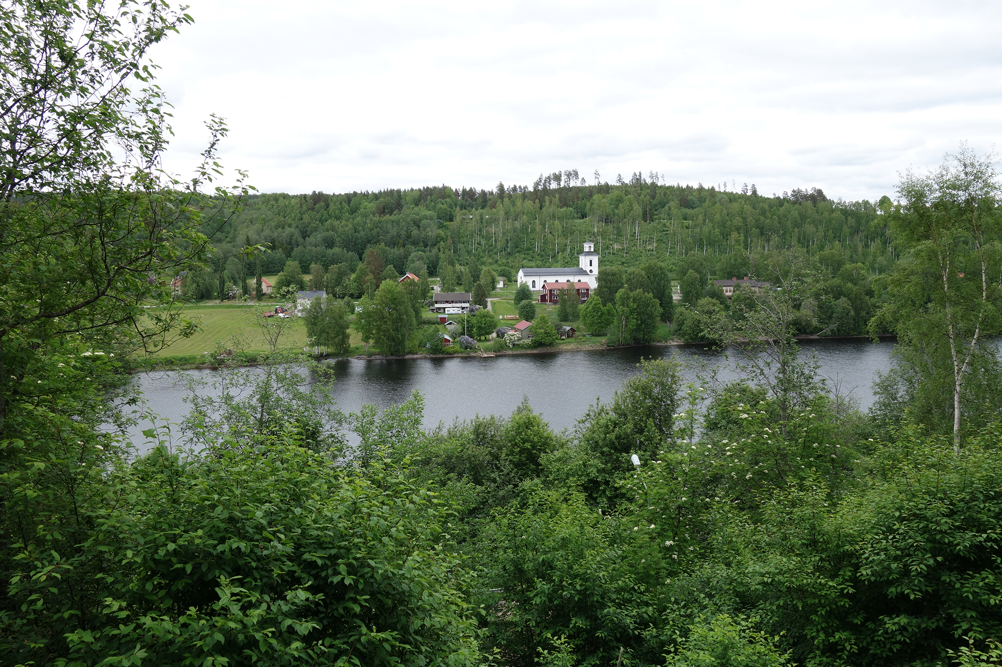 The church of Resele, northern Sweden, by the river Ångermanälven.